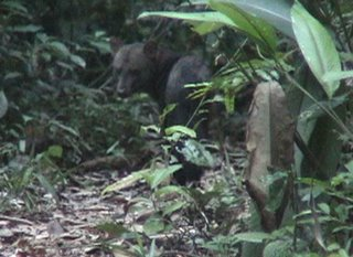 photo of a rare Short-eared Dog (Atelocynus microtis) taken at Refugio Amazonas in Peru.